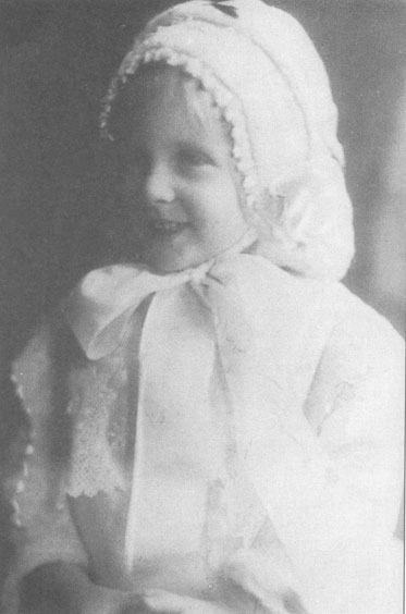 A studio photograph of Betty Munn, the daughter of John Shannon Munn and step-granddaughter of Sir Edgar Rennie Bowring, both prominent Newfoundlanders. She perished with her nurse and father on the wreck of the SS Florizel in 1918, and her grandfather had a statue of Peter Pan erected in her honour in St. John's.